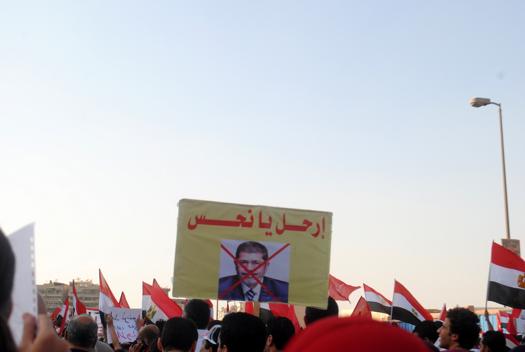 Anti-Morsi protests in Egypt, 28th June 2013.